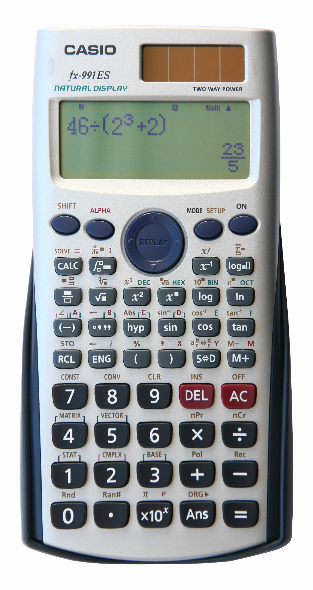 Casio fx-991ES Scientific Calculator @Casio Website